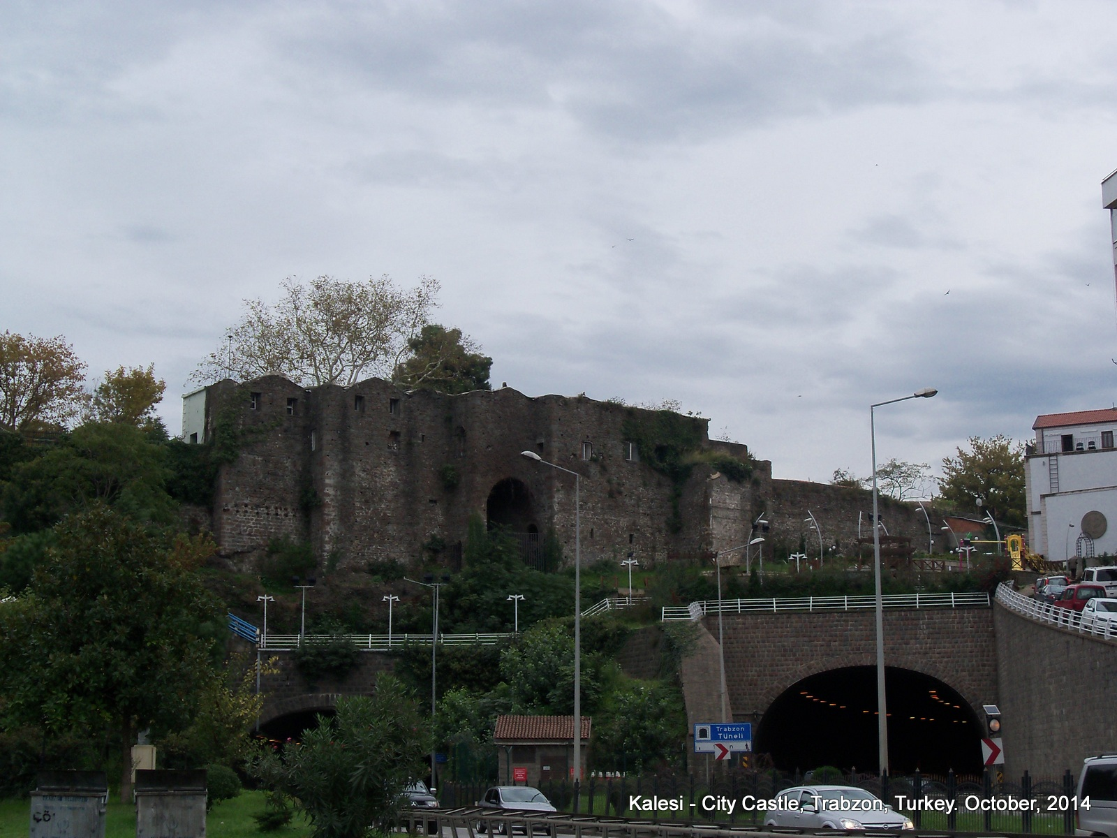 The ruins of Leonkastron fortress, later Guzel-Hisar and now Kalepark. On the northwestern part of the historic city of Trabzon, Turkey.